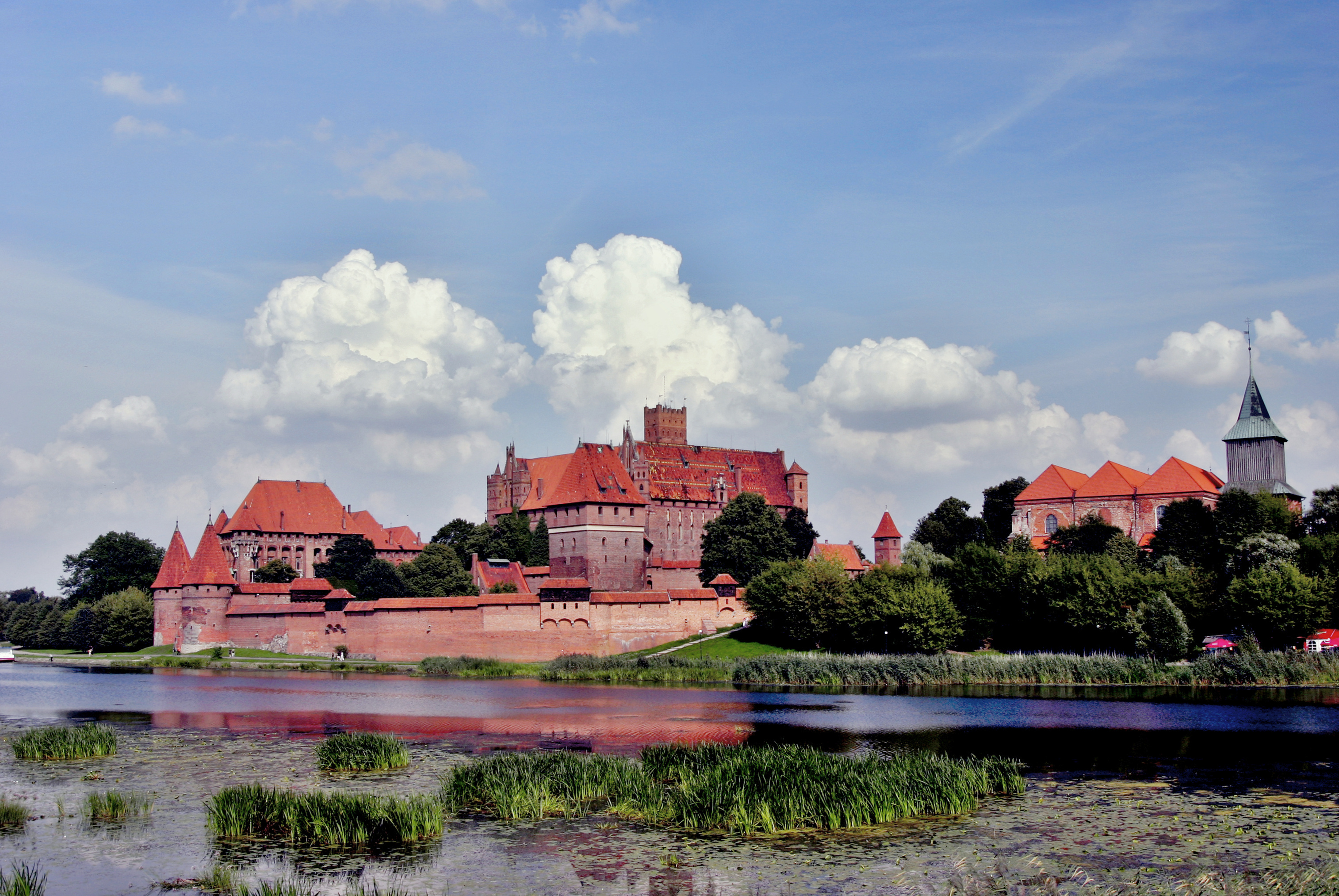 Malbork was once the seat of power and a formal capital of the Teutonic Order, a rowdy bunch of Monks with some pretty mean fighting skills.Malbork Teutonic Castle - UNESCO World Heritage Site